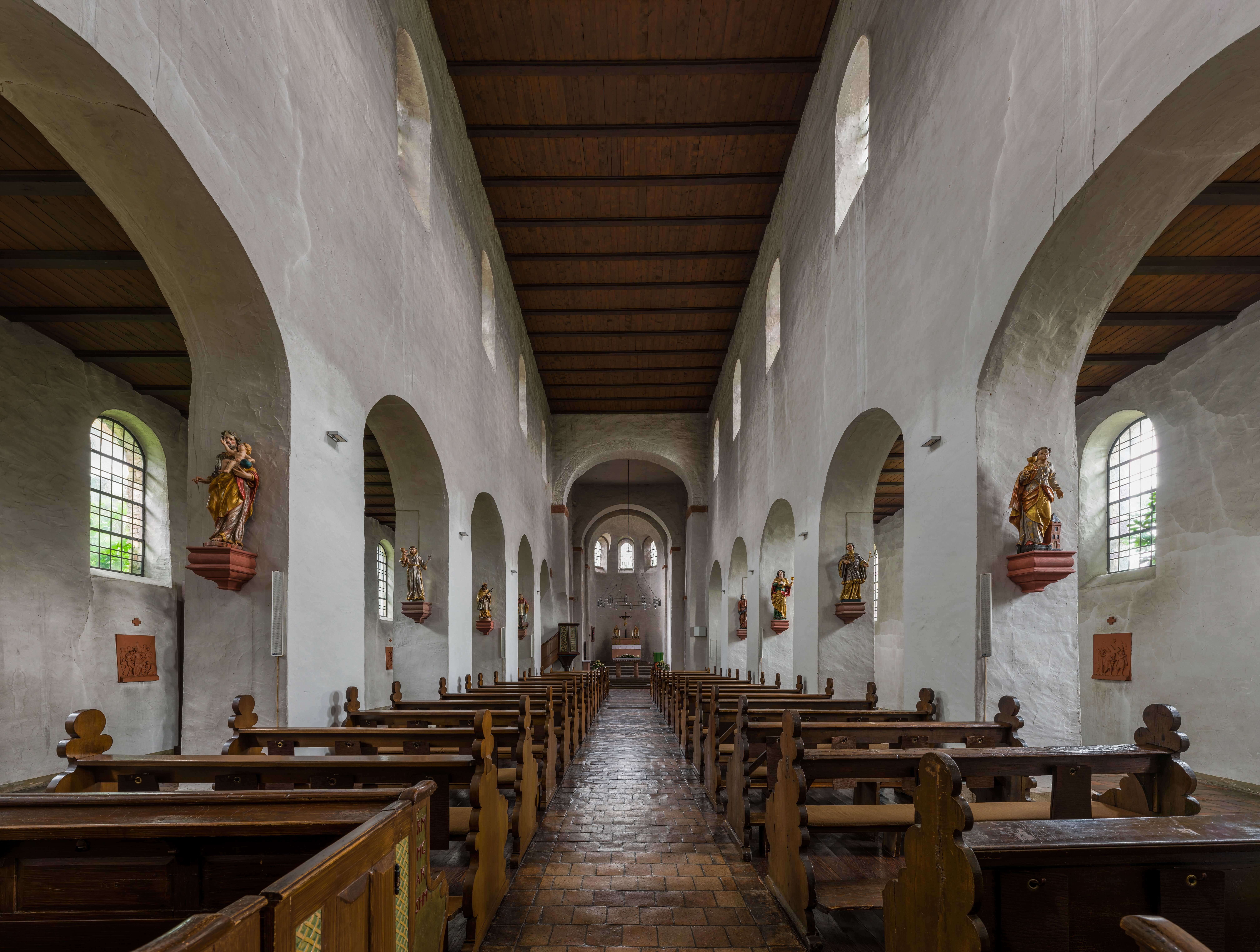 The nave of the basilica St. Aegidius in Mittelheim